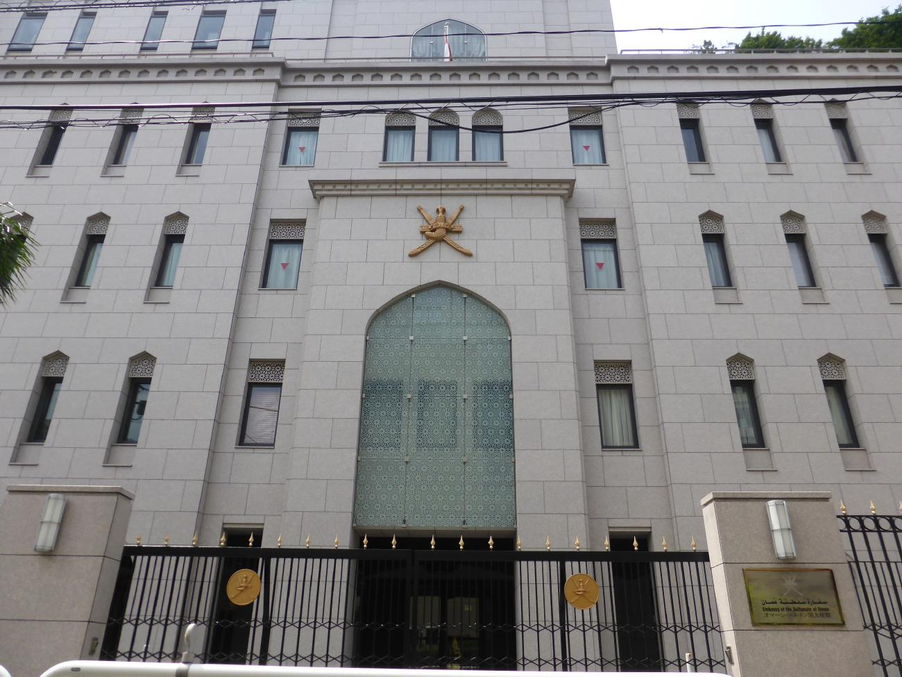 The national flag and emblems on the Chancery of the Embassy of Oman in Tokyo, Japan.